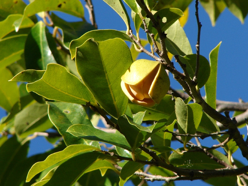 Fruit tree native to West Indies (S. America) Common name: Mountain soursop, wild custard apple, guanabana de monte, corosselier batard, wild soursop, boszuurzak, Guanabana de perro. It has an edible fruit, the pulp resembles the taste of Soursop and contains light brown seeds. Photographed: Brisbane Botanic gardens (Mt. Coot-tha), Australia